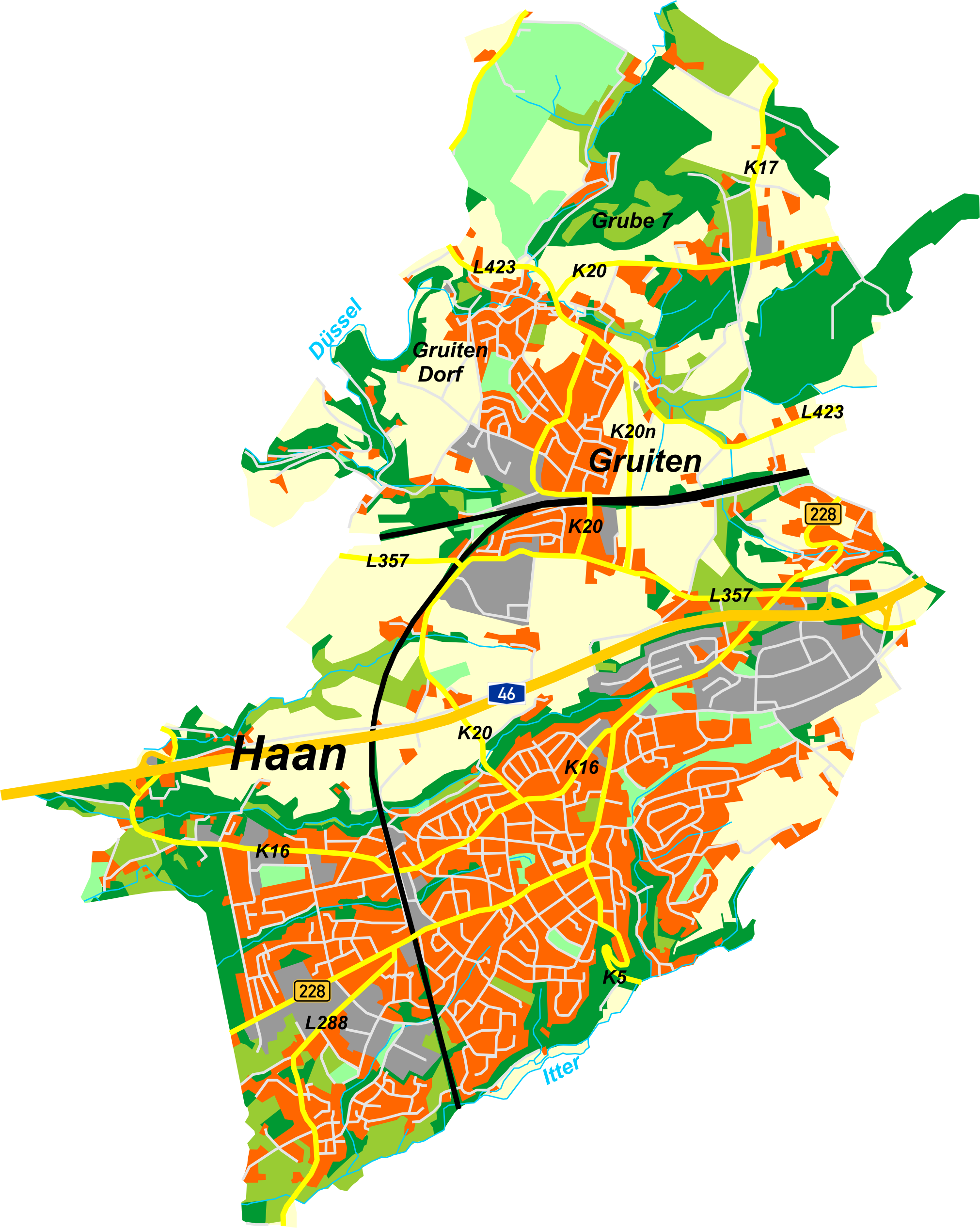 Map of Haan, County of Mettmann, Northrhine-Westfalia, Germany